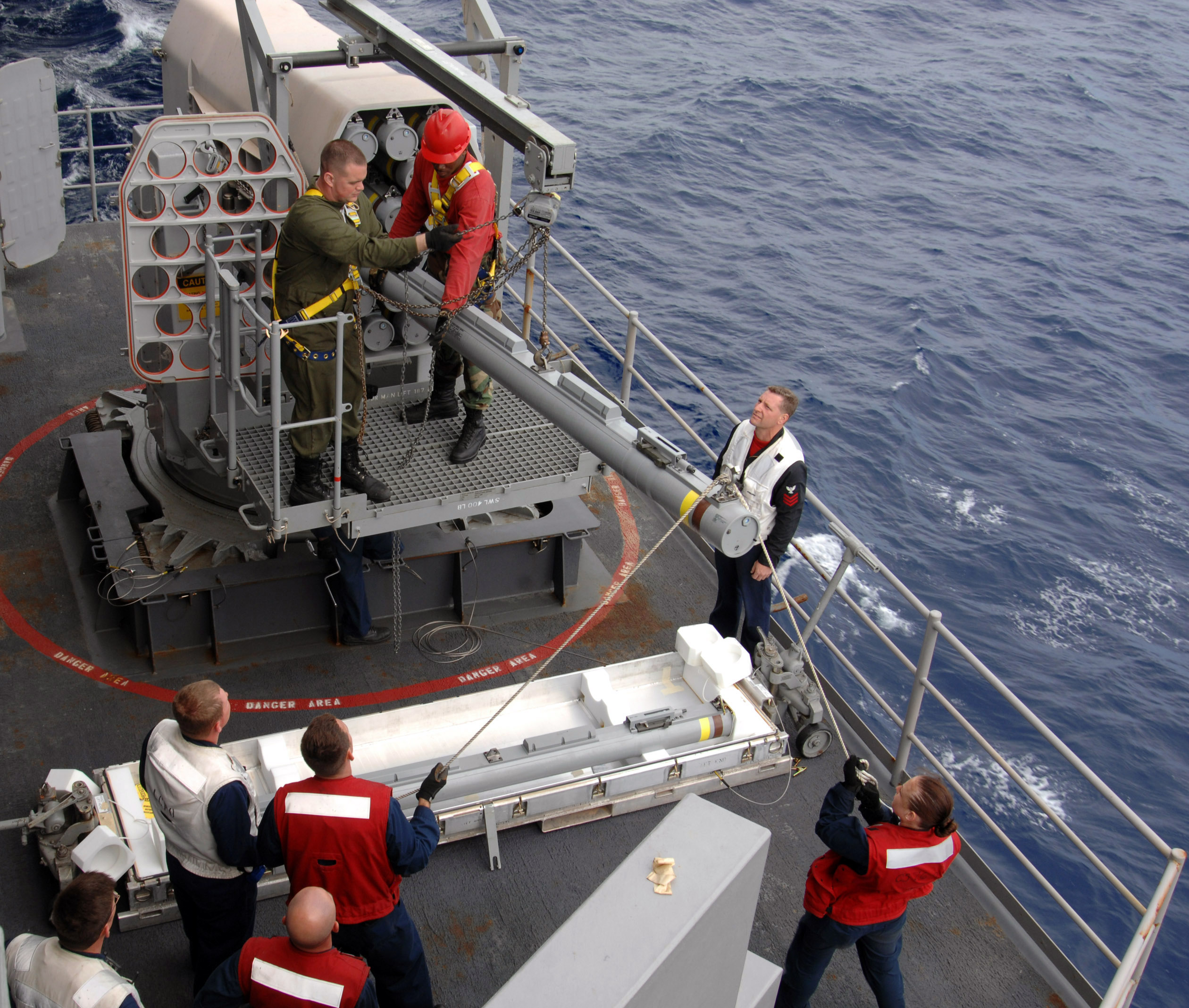 Sailors download the rolling airframe missile system aboard the Nimitz-class aircraft carrier USS Harry S. Truman (CVN 75). Truman is assigned to the U.S. 6th Fleet area of responsibility conducting theater security cooperative activities.